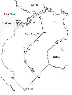 Location of Bach Long Vi in Tokin Gulf